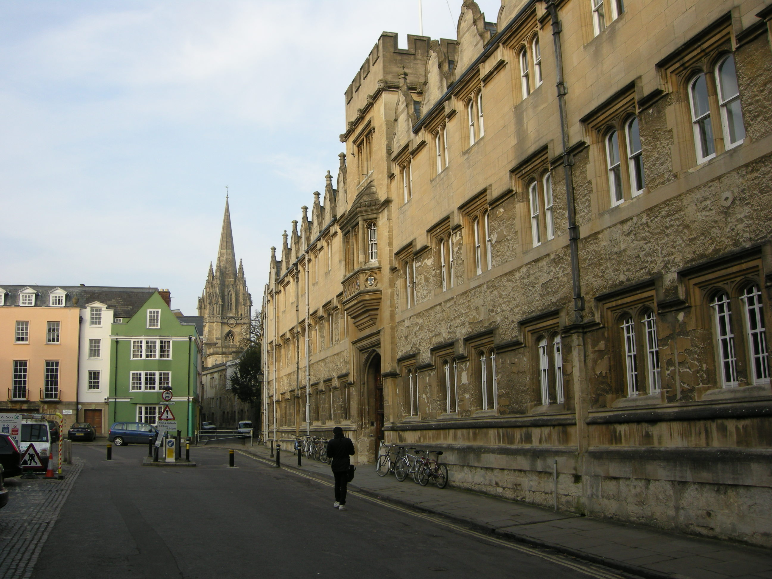 Oriel Square in central Oxford, England. Oriel College, one of the older colleges of the University of Oxford, is on the right. The spire of St Mary's, the University Church, is in the distance.